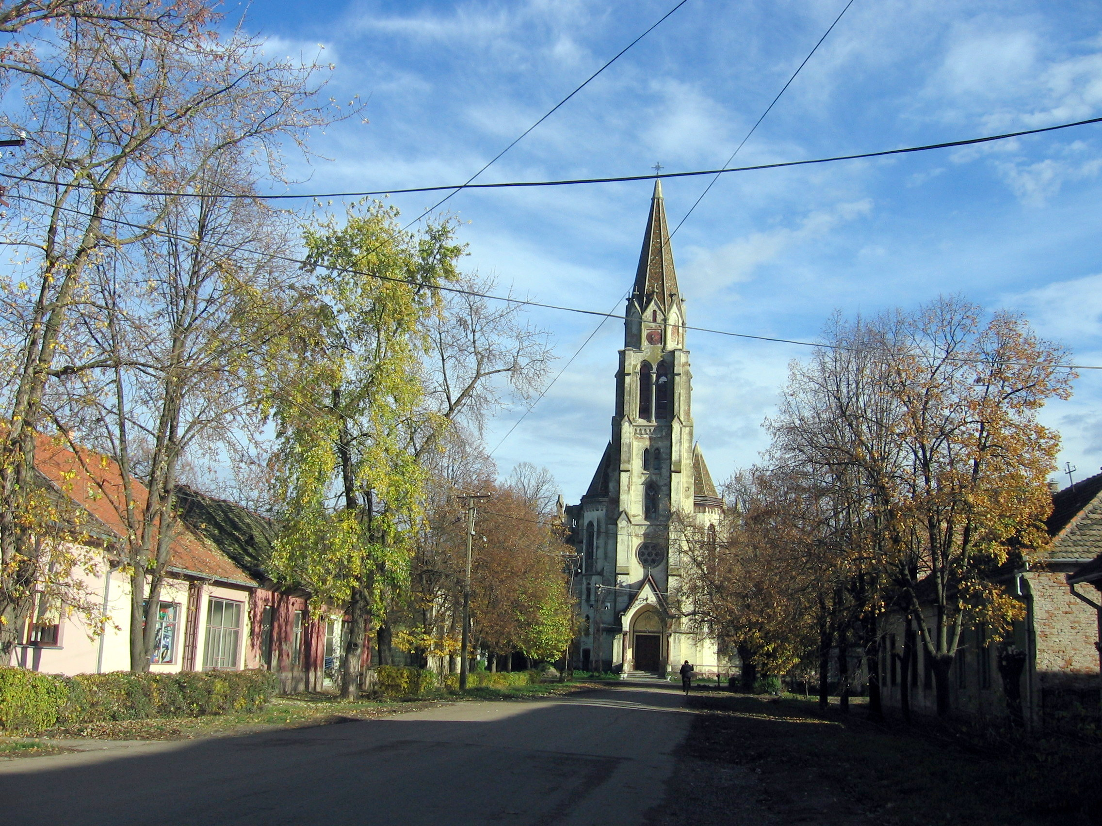 Center of Jaša Tomić with Catholic church (1912) Banat, Vojvodina, Serbia